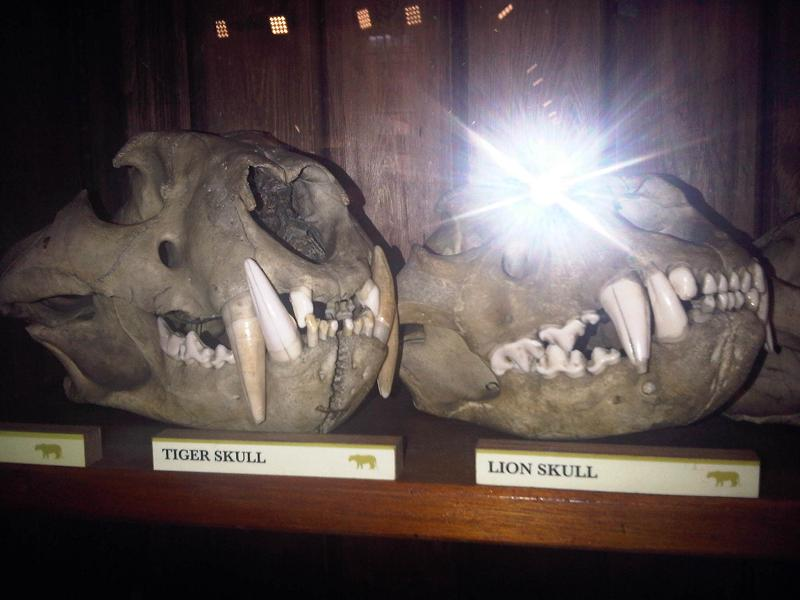 Tiger (Panthera tigris) and lion (Panthera leo) skulls in Grant Museum of Zoology, London, England.